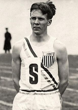 Fred Alderman US olympic champion